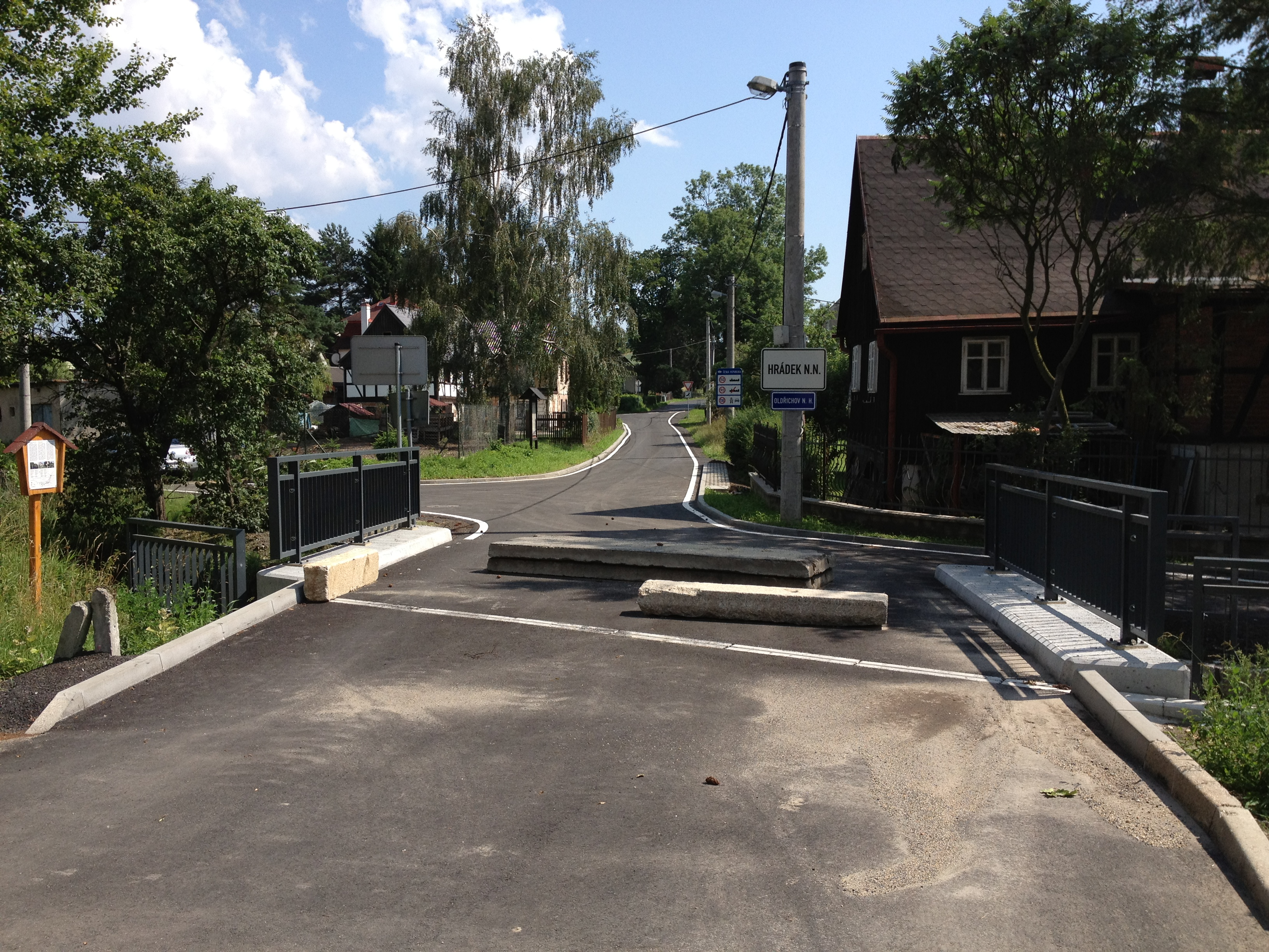 Border bridge connecting Kopaczow (Oberullersdorf) in Poland with Oldrichov (Ullersdorf) in the Czech Republic. View from the Polish side towards the Czech Republic.